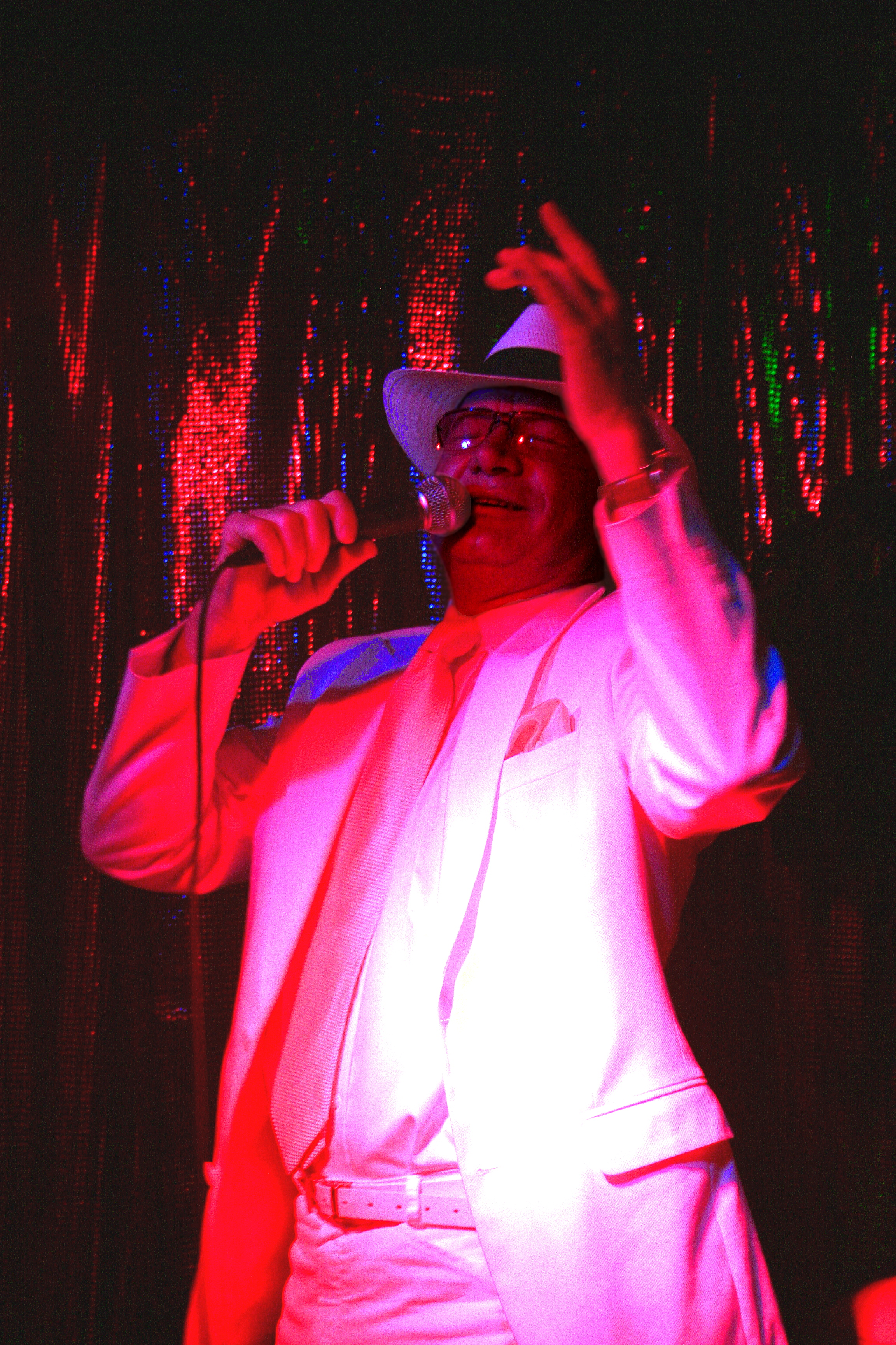 the austrian musician Louie Austen 2007 performing in the club A.R.M in Kassel